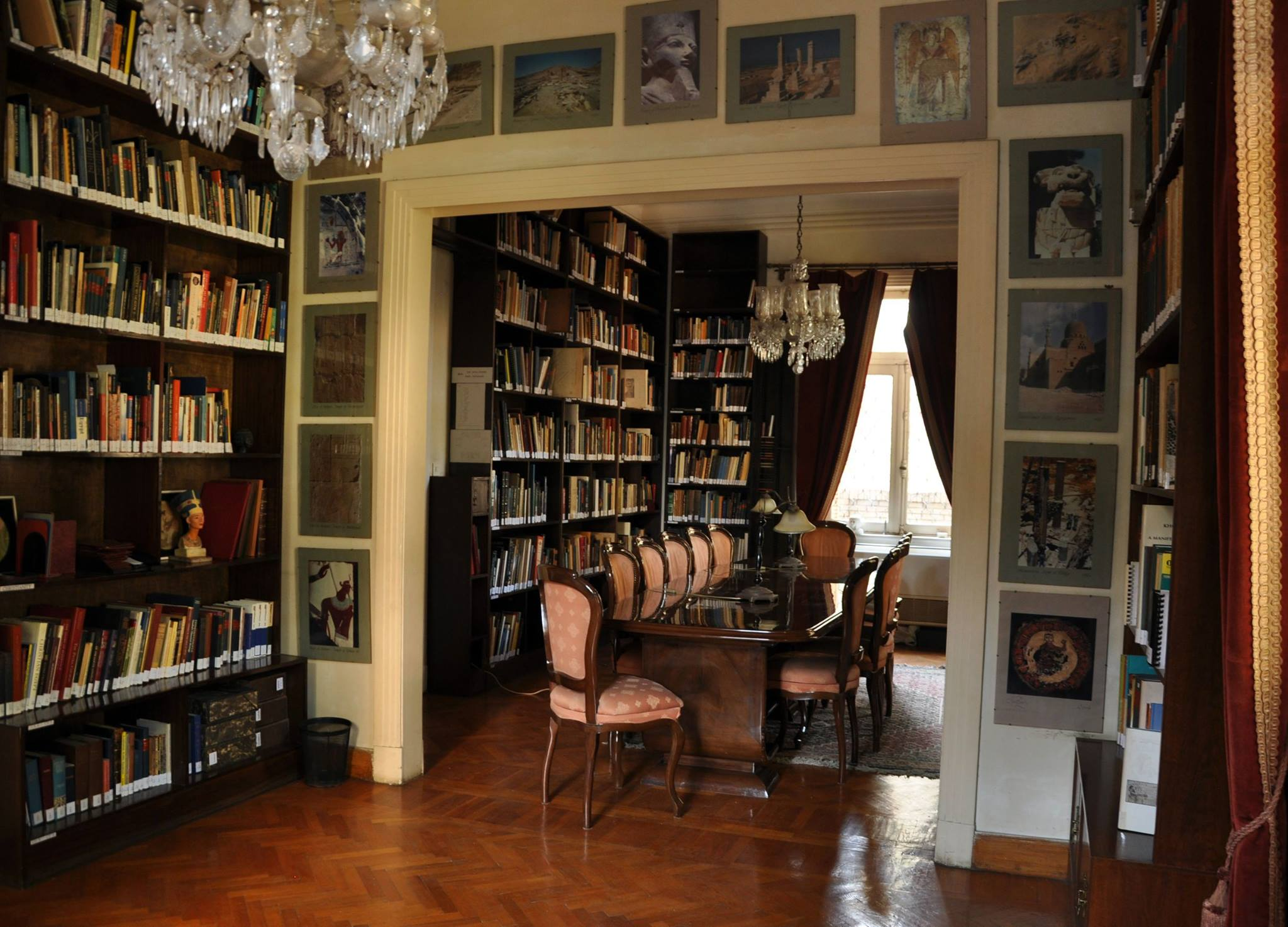 Book collection of Polish Centre of Mediterranean Archaeology UW, Research Centre in Cairo